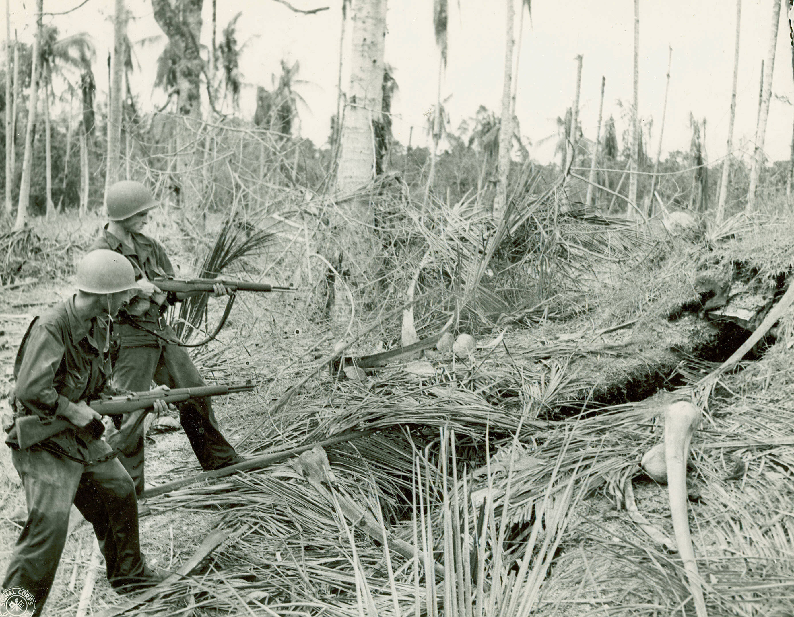 Clearing out the vipers nest: "American Soldiers clearing a Japanese bunker near Buna, New Guinea" (World War II Signal Corps Photograph Collection).